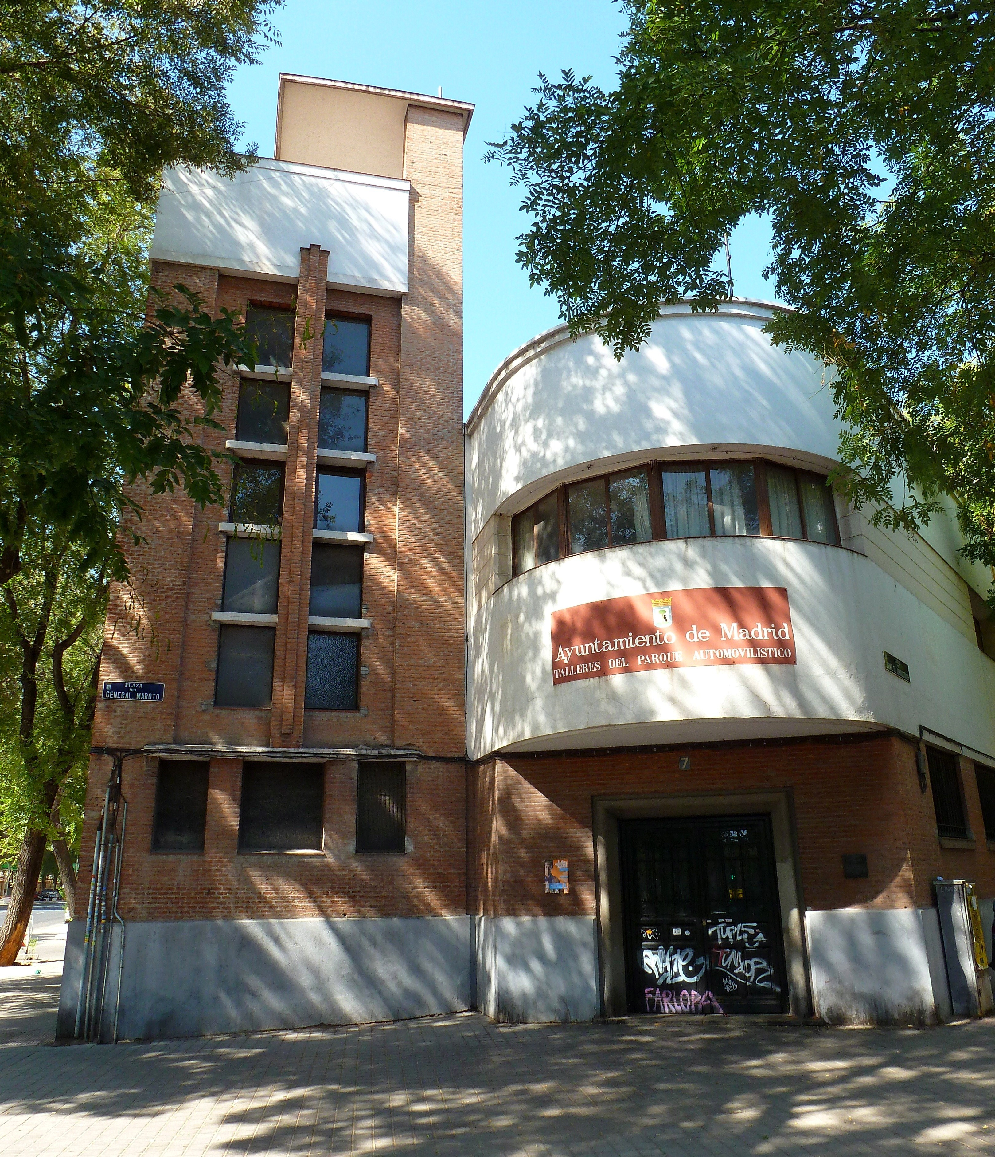 "Parque Sur" building, Madrid, Spain.